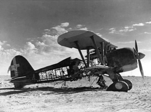 A wrecked Italian Fiat C.R. 42 Falco fighter on an airfield between Capuzzo and Bardia in Libya, 1940.